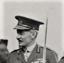 Extract from 1920 photograph held by the Toronto Public Library - "Lt. Gov. Lionel Clarke, General Elmsley & self at opening of Provincial Parliament"